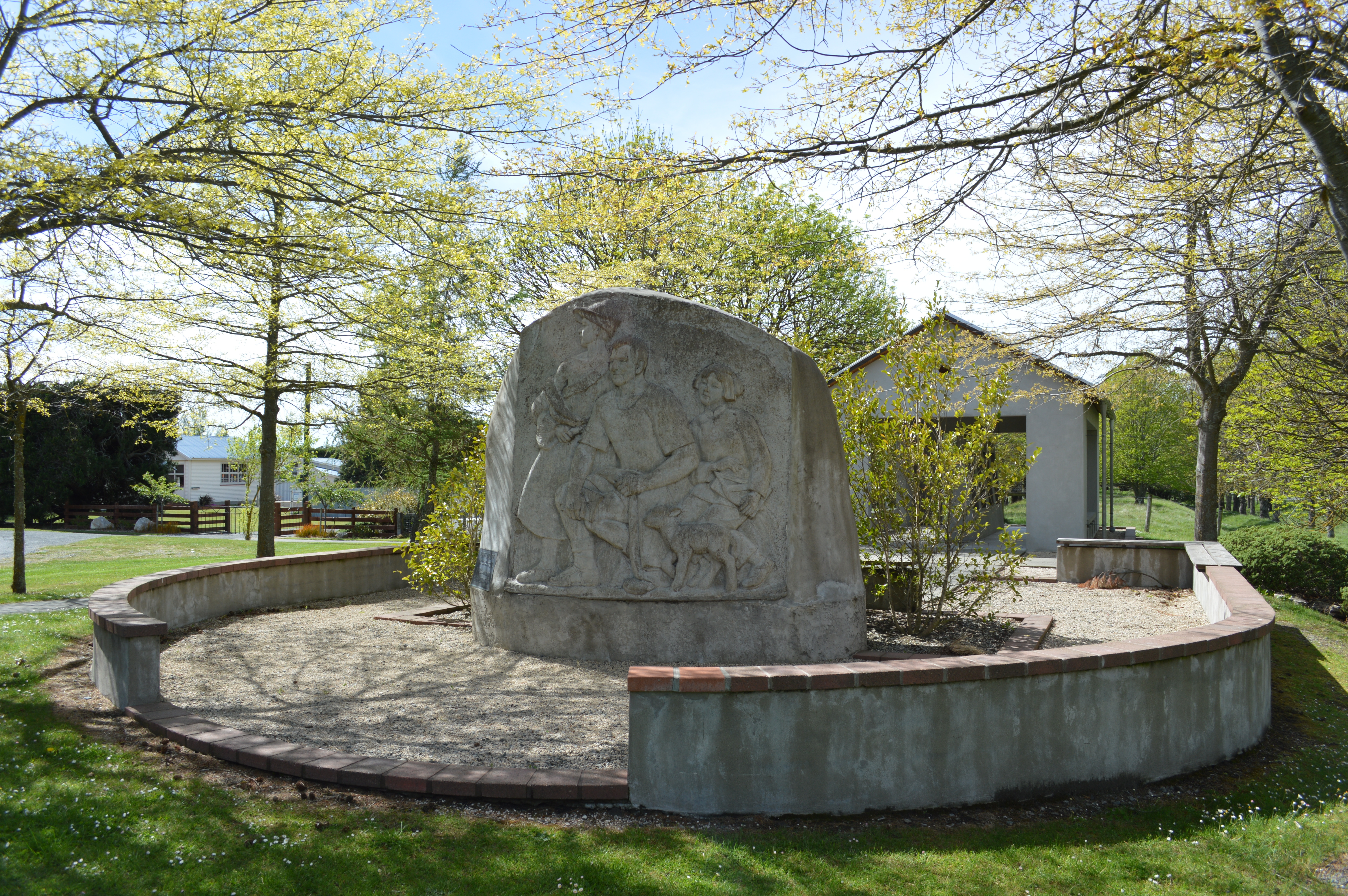 Rewi Alley Memorial at Springfield, New Zealand